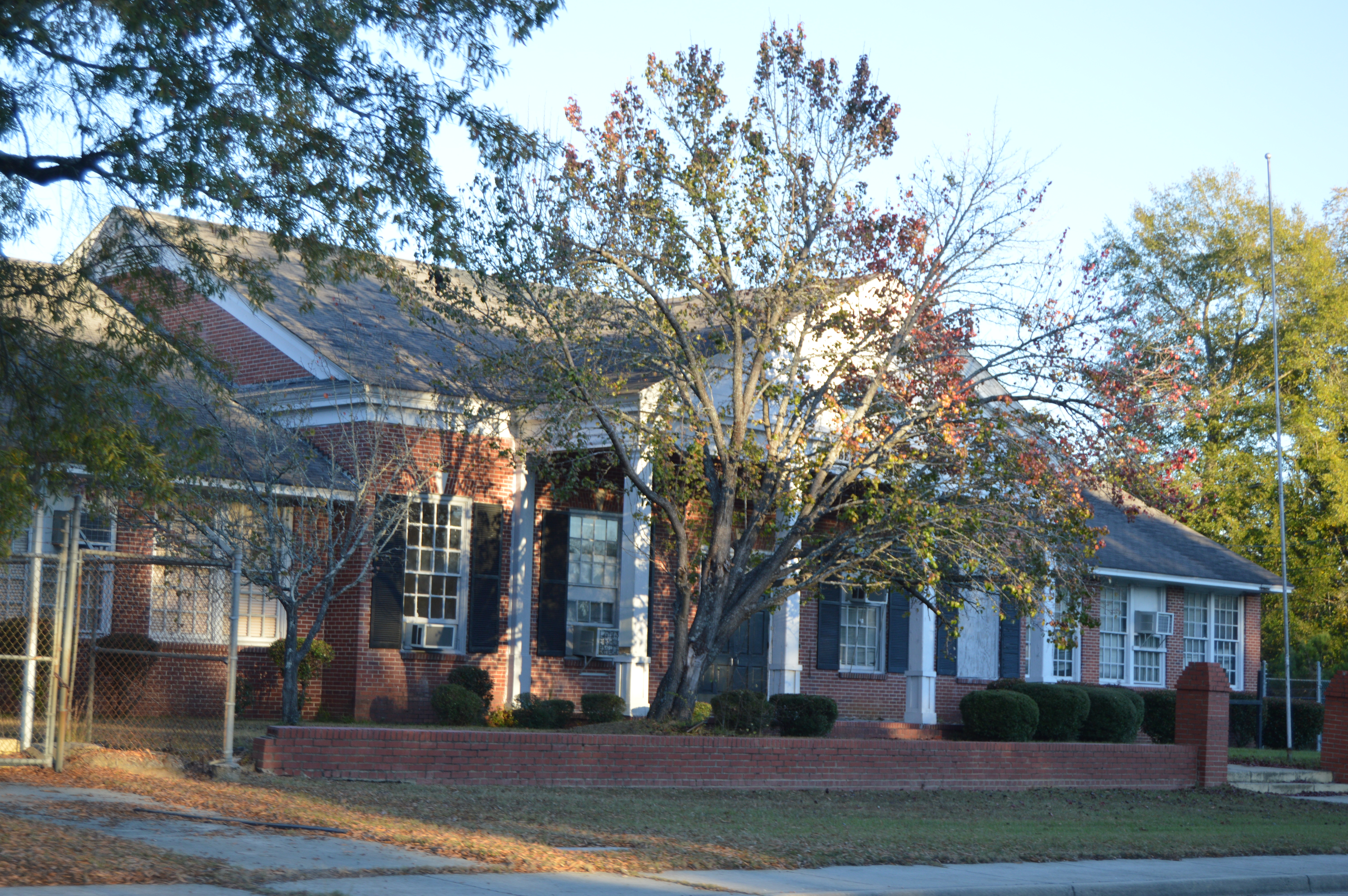 Front of the Robert Smalls School, located at 316 Front Street in Cheraw, South Carolina, United States. Built in 1953, it is listed on the National Register of Historic Places.